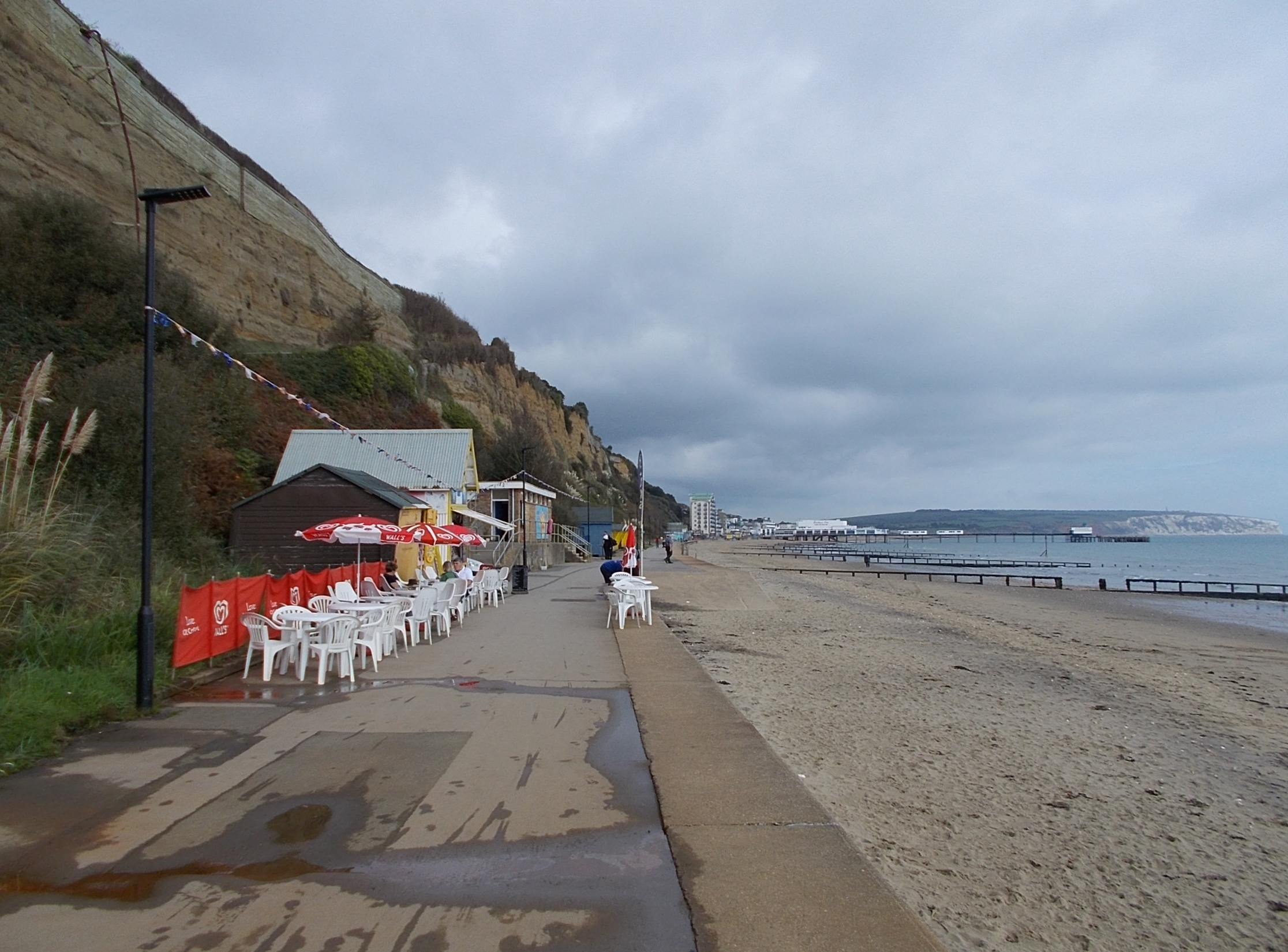 Beach at Lake, Isle of Wight, UK